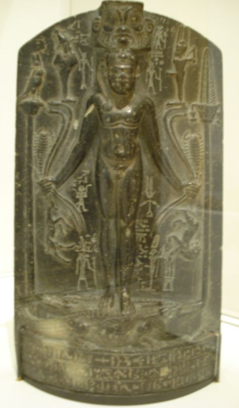 Magic healing stele of Horus. Ptolemaic dynasty, c. 305-30 BC. Steatite.